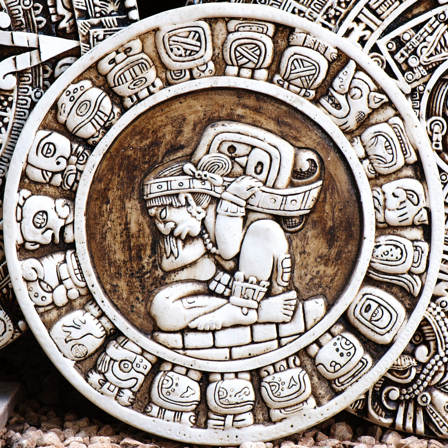 Complete Haab cycle. This photo was taken by the usuary Theilr and posted in the Flickr site